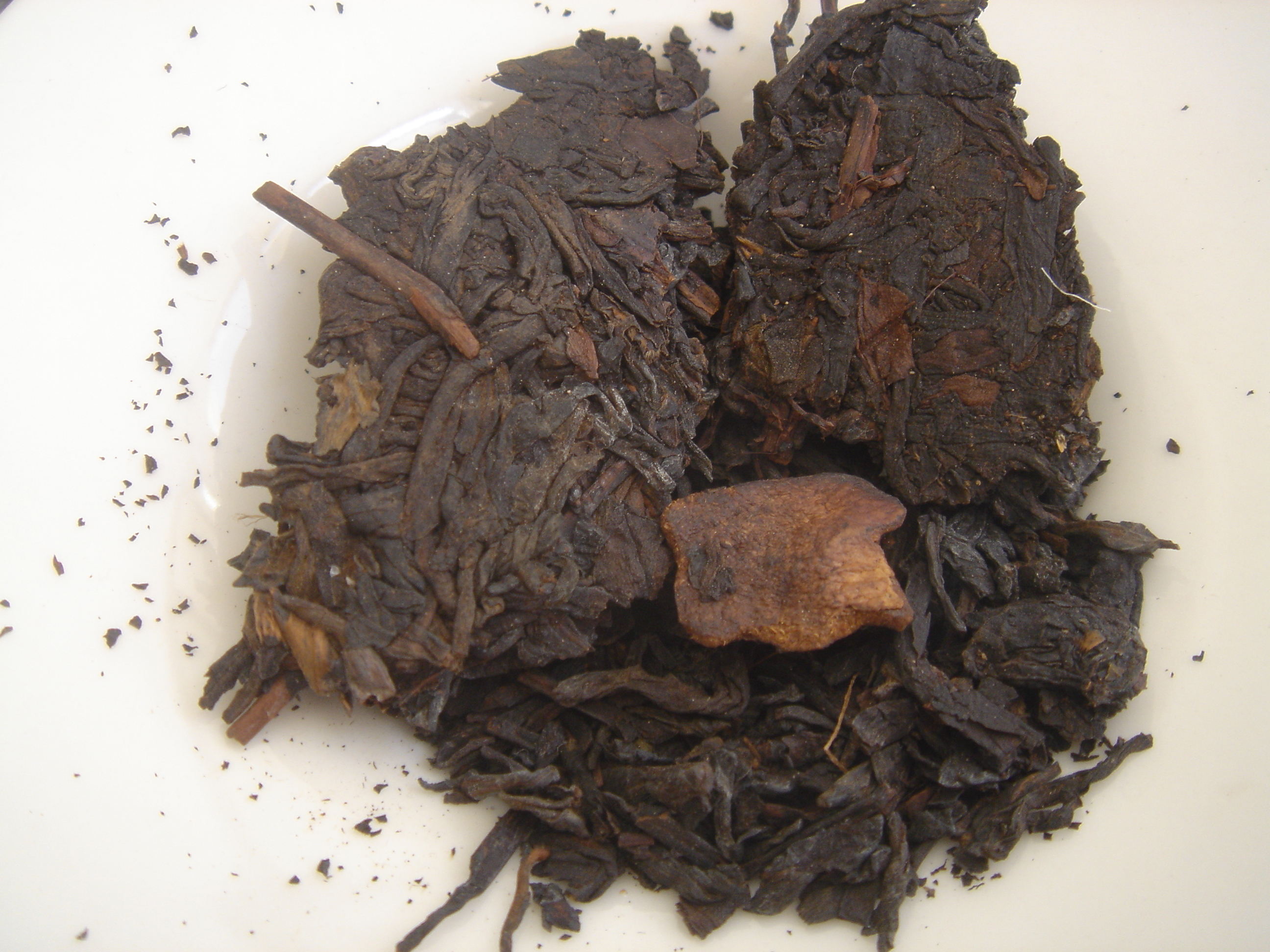 Pieces of a 1970's guang yun cake